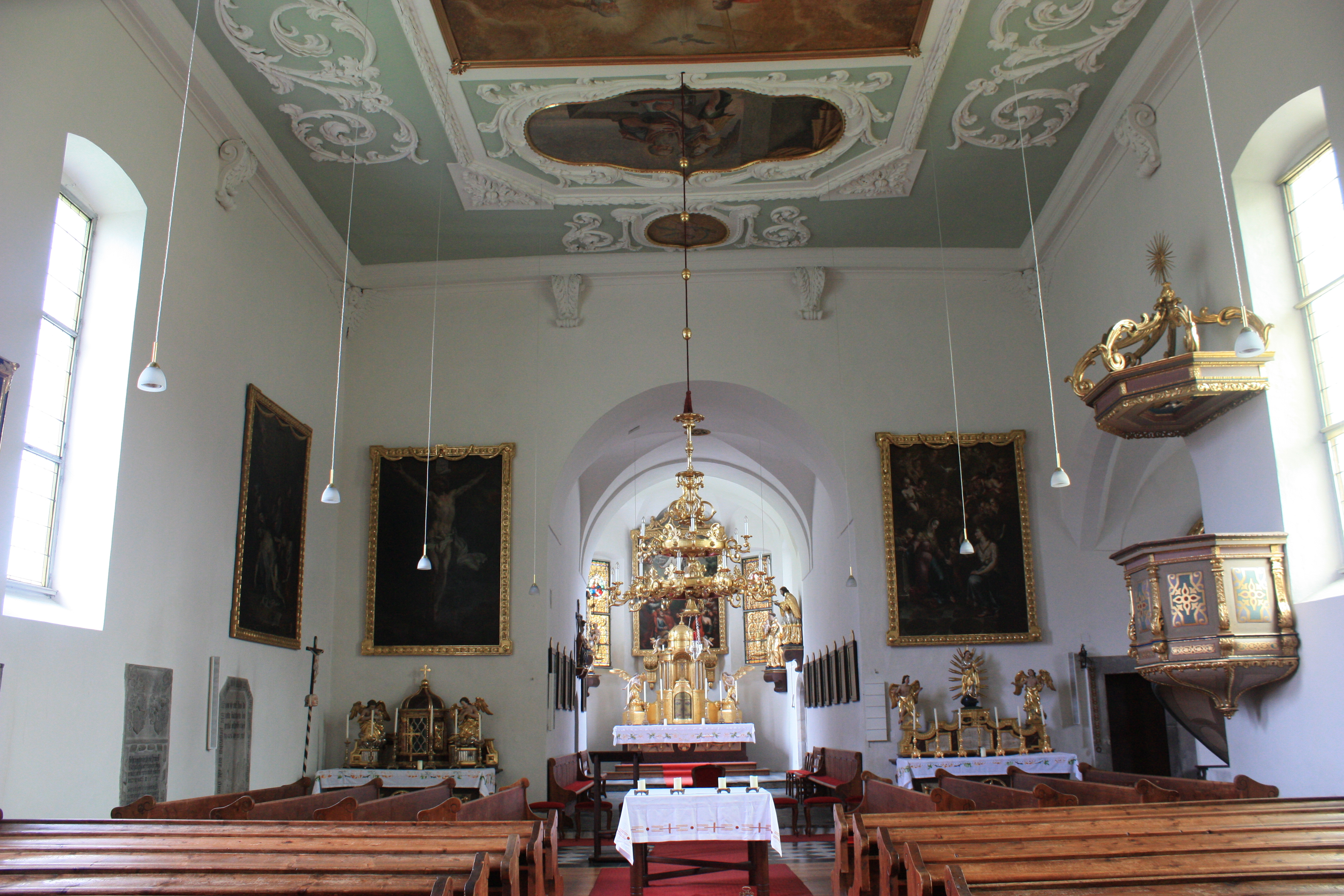 Parish church Saint Maximilian: Interior Locality:Treffen Community:Treffen